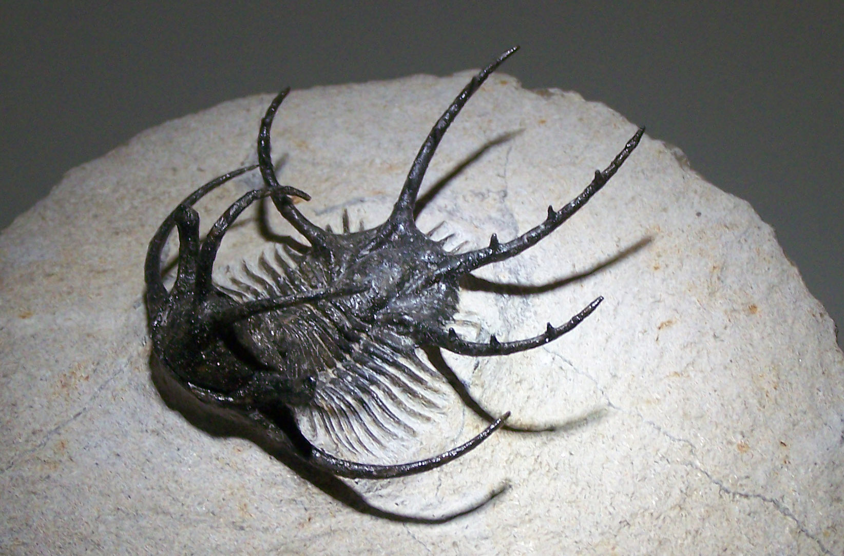 Fossil of the trilobite genus Ceratarges, found in the Devonian (about 360 million years old) Hamar Laghdad Formation near Alnif, Morocco. Fossil is about 6 cm in length. Collection of the Sauriermuseum Aathal, Aathal, Switzerland.